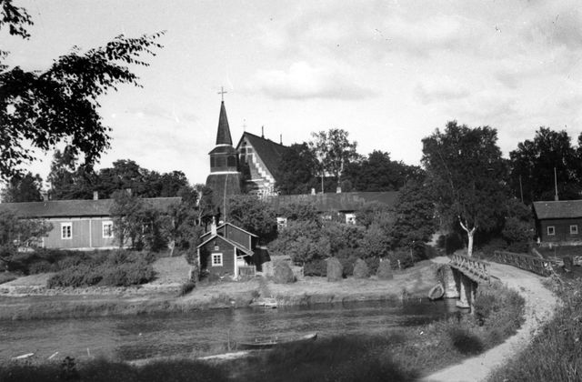 St. Olof's Church, Ulvila, Finland.